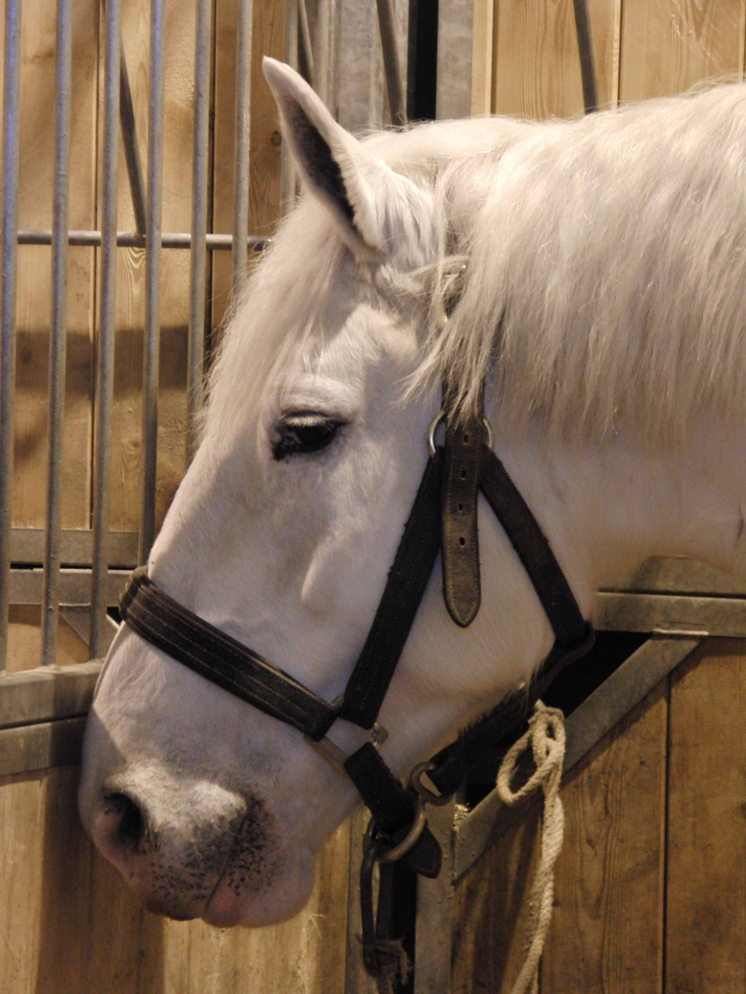 Boulonnais horse's head - Salon international de l'agriculture 2011